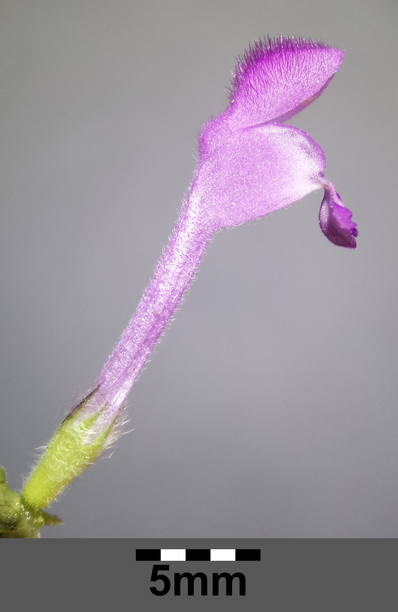 Opened, chasmogamous flower Taxonym: Lamium amplexicaule ss Fischer et al. EfÖLS 2008 ISBN 978-3-85474-187-9 Location: near Alte Schanzen, Floridsdorf, Vienna - ca. 200 m a.s.l. Habitat: wine yard